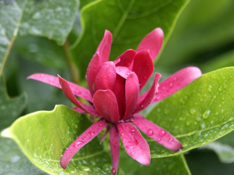 Calycanthus occidentalis — Western spicebush, flower. In the Regional Parks Botanic Garden of native California flora, Tilden Park, Berkeley Hills, California.